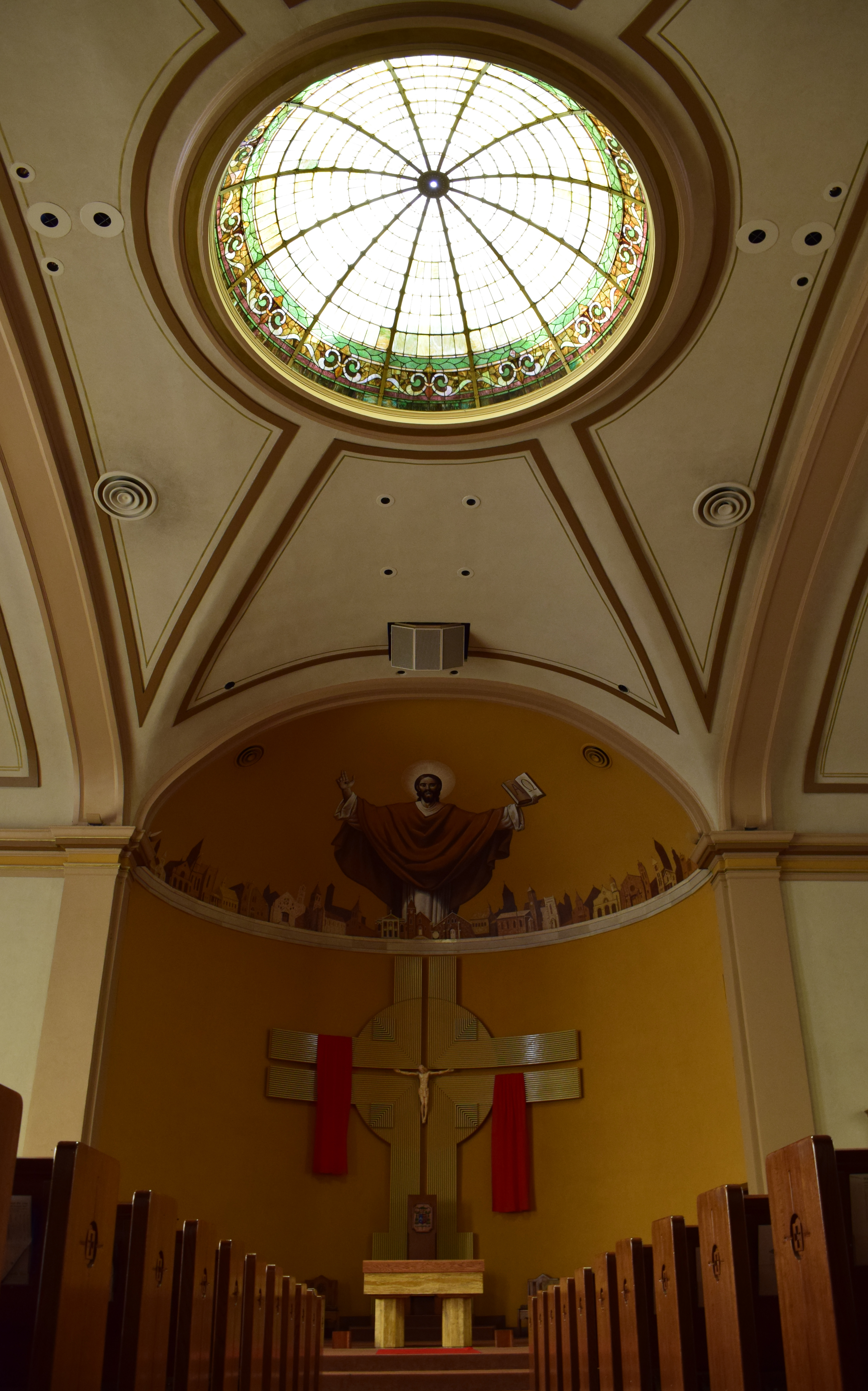 Saint Agnes Cathedral (Springfield, Missouri) - nave 2